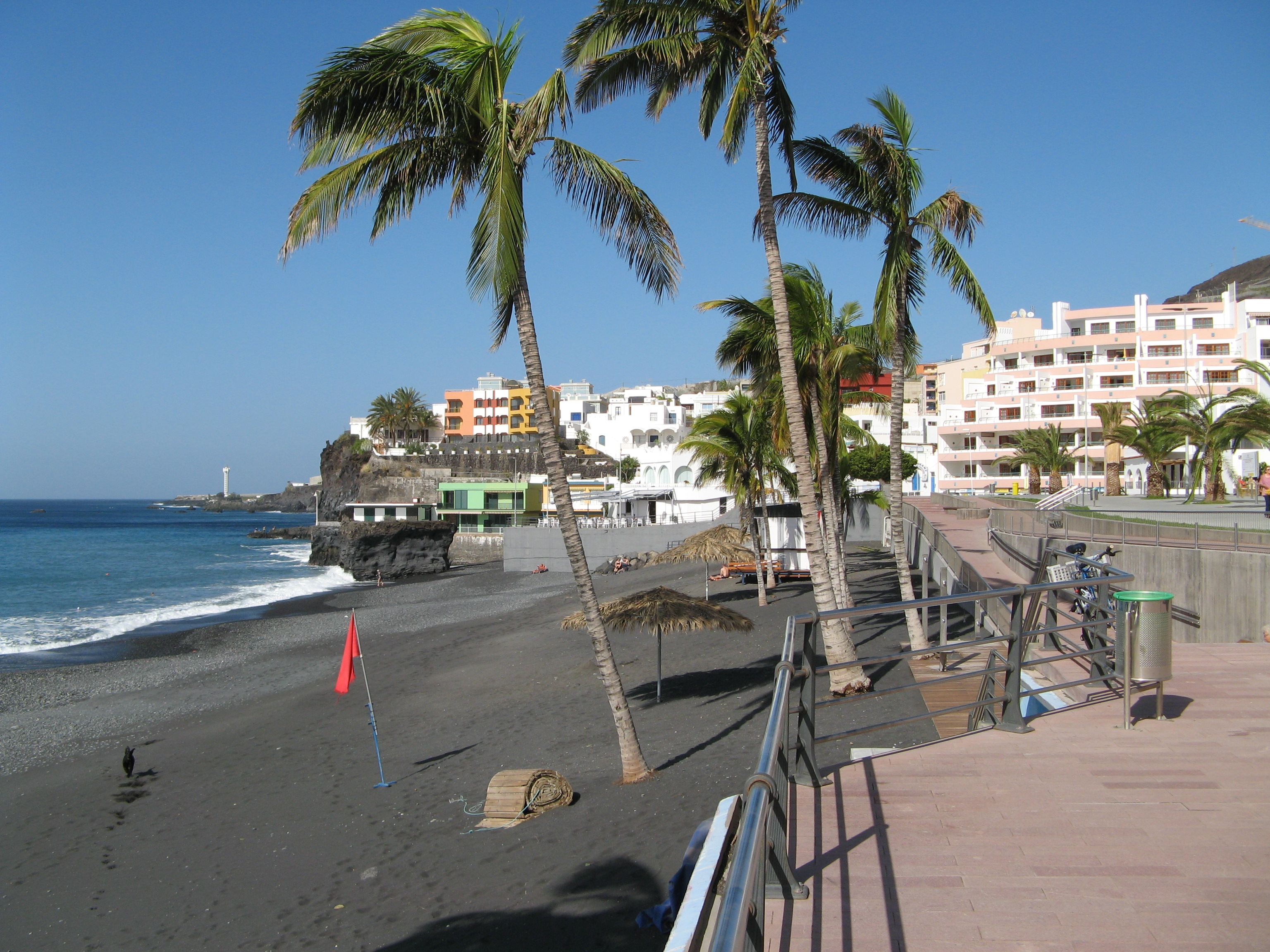 Puerto Naos with new Sea Terrace